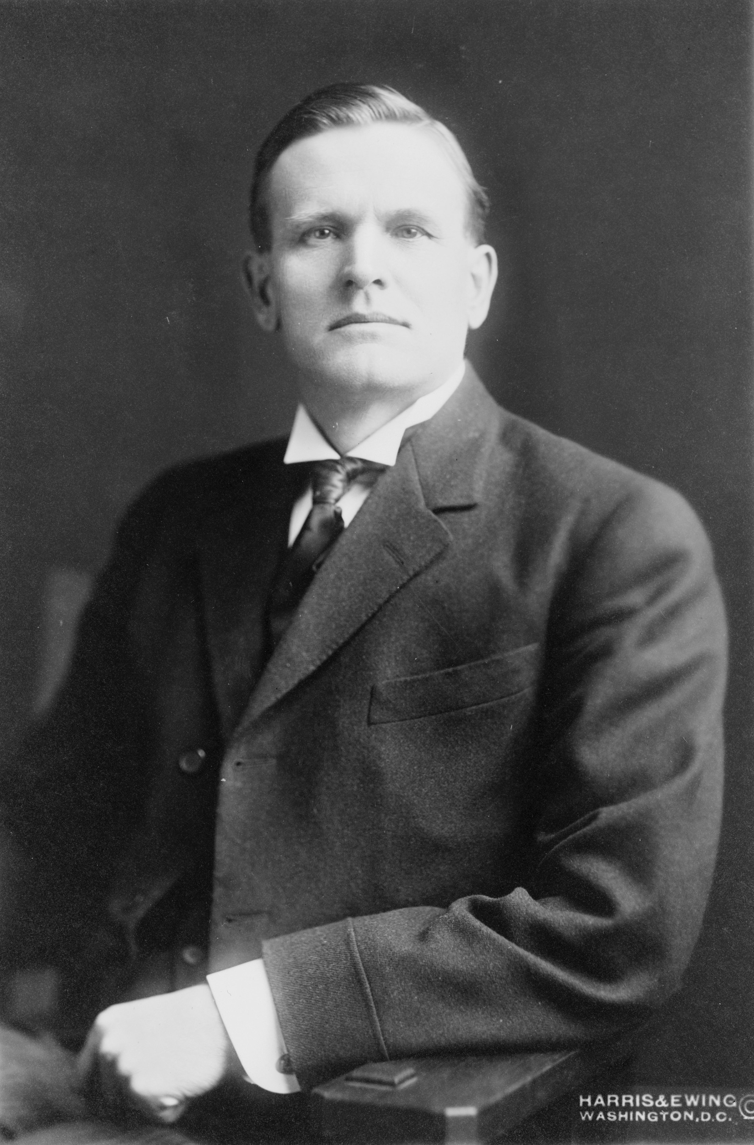 Title: Irvine Luther Lenroot, half-length portrait, seated, facing front Abstract/medium: 1 photographic print.